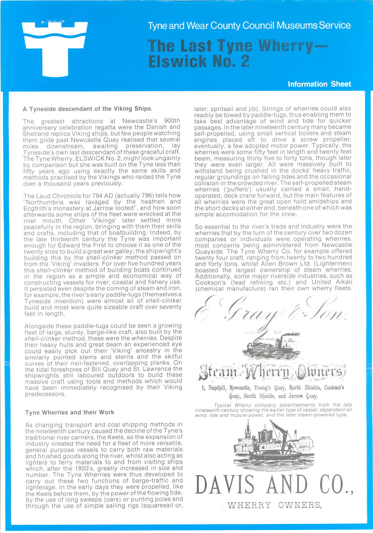 Tyne & Wear County Council Museums Service The Last Tyne Wherry Elswick No 2 Information Sheet (front). Undated c1979. An original may be consulted at Tyne and Wear Archives and Museums Discovery Museum.